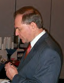 Former Virginia Gov. Jim Gilmore at the Republican Party of Iowa's Lincoln Day Dinner -- April 14, 2007 in Des Moines. Read coverage